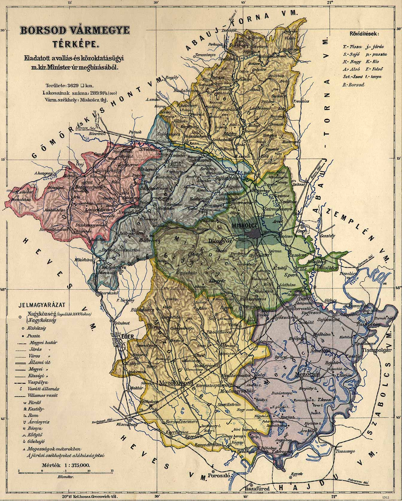 Administrative map of the county of Borsod in the Kingdom of Hungary